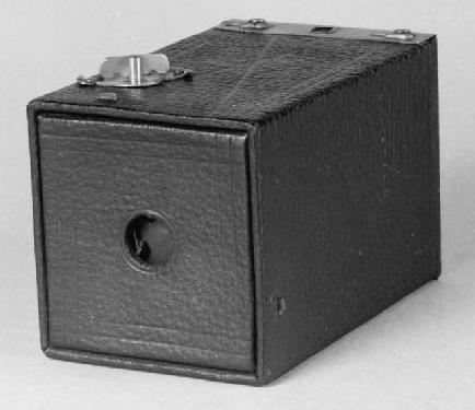 Photography during the First World War A Kodak No 1 Brownie Model B box camera (manufactured 1900 - 1915). The No 1 Brownie, an improved version of the original Brownie which had pioneered snapshot photography for the amateur mass market, was a popular alternative to the Vest Pocket Kodak during the First World War.